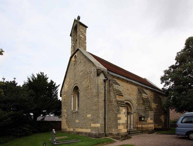 St Mary, Roecliffe, North Yorkshire, near to Roecliffe, North Yorkshire, Great Britain.